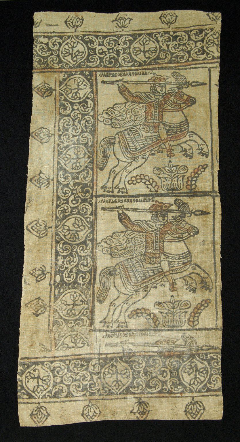 Russian textile with an image of Bova Korolevich, a hero of Western romances of chivalry integrated into Russian folklore in the 17th century.